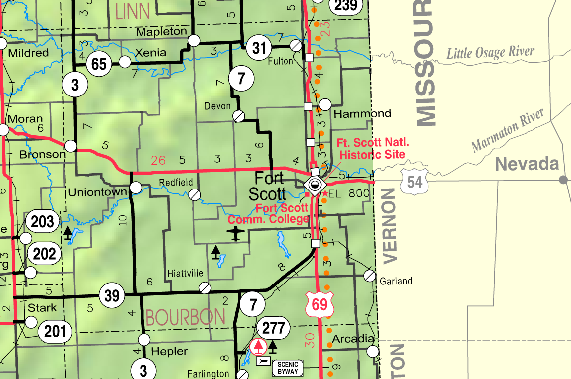 This map of Bourbon County, Kansas, USA, is copied at a resolution of 300 pixels/inch from the original PDF file.